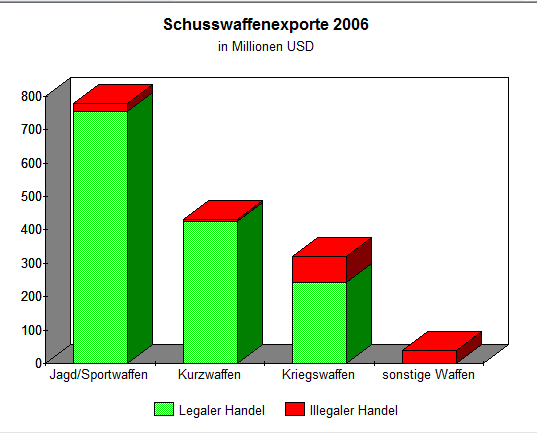 Chart of worldwide firearms exports in year 2006. Rifles, shotguns, revolvers, pistols, military firearms, legal and illicit trafficking. Source is Small Arms Survey Report 2009